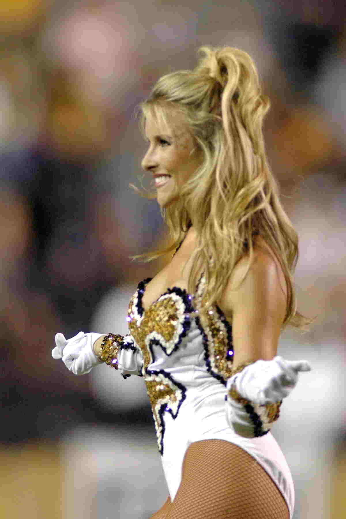 One of the LSU Golden Girls dances on the field during a performance of the Louisiana State University Tiger Marching Band.